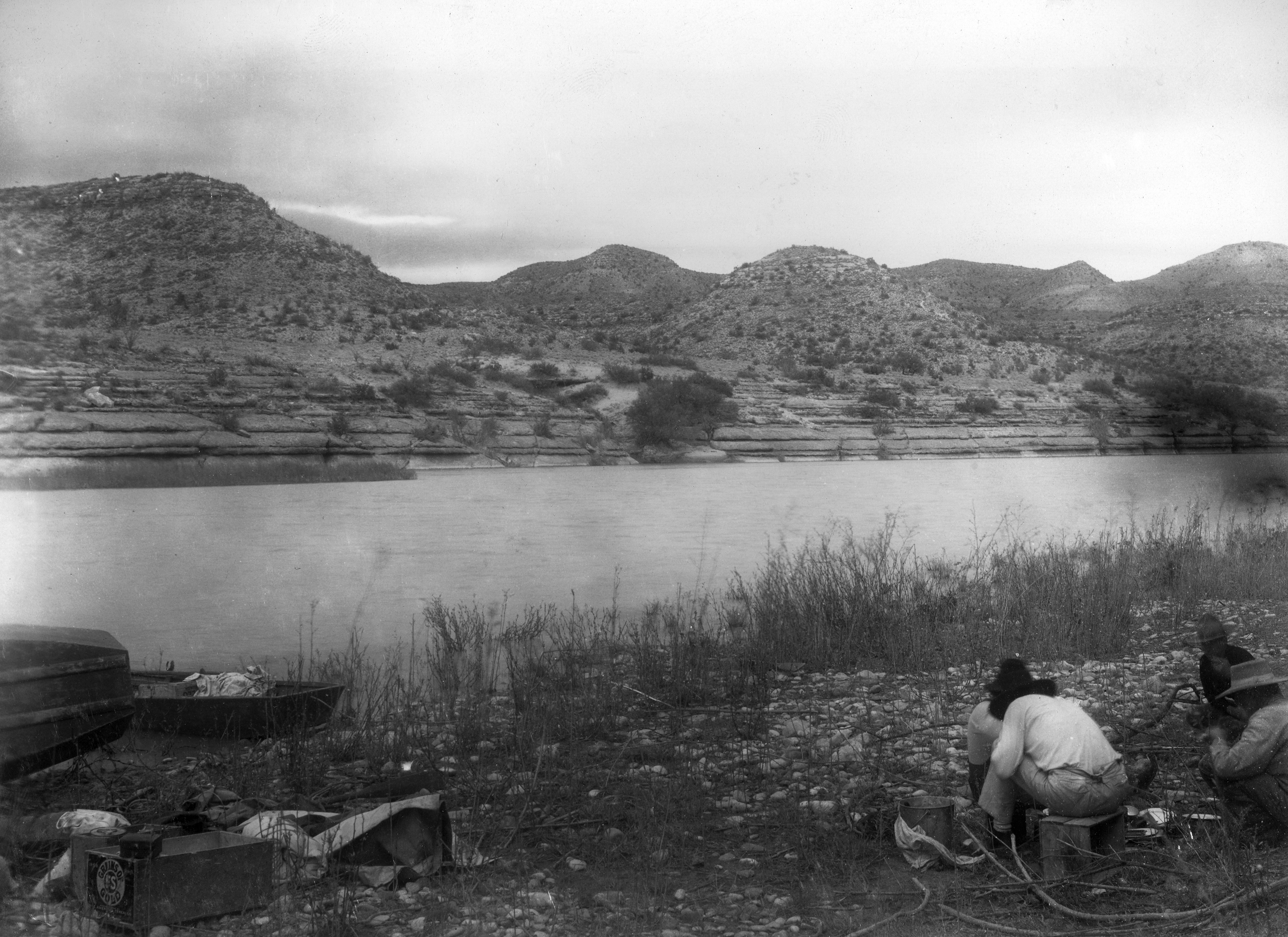 Rio Grande near San Francisco Creek. USGS survey party led by Robert T. Hill in right foreground. Brewster County, Texas. 1899.